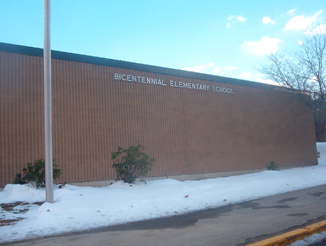 Bicentennial elementary school in Nashua